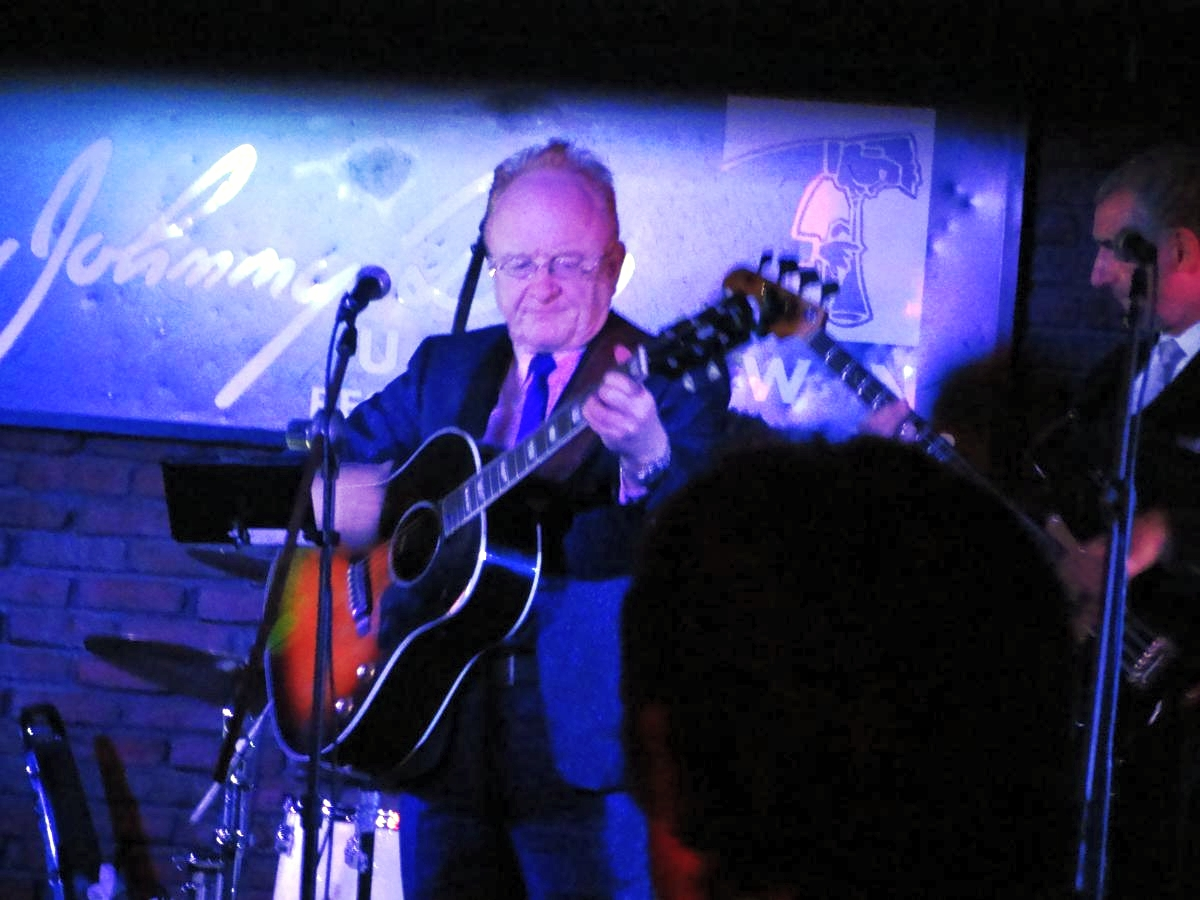 Peter Asher of Peter and Gordon (1960s British Pop band), Asher performing at Johnny D's in Somerville, Massachusetts, USA. August 8, 2012.